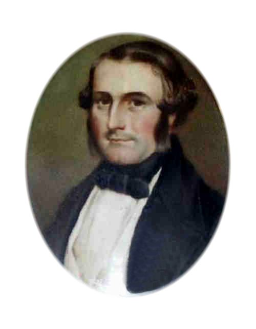 Portrait of William Stanger (surveyor) (1811-1854), member of 1841 Niger expedition, Surveyor-general of Natal, South Africa